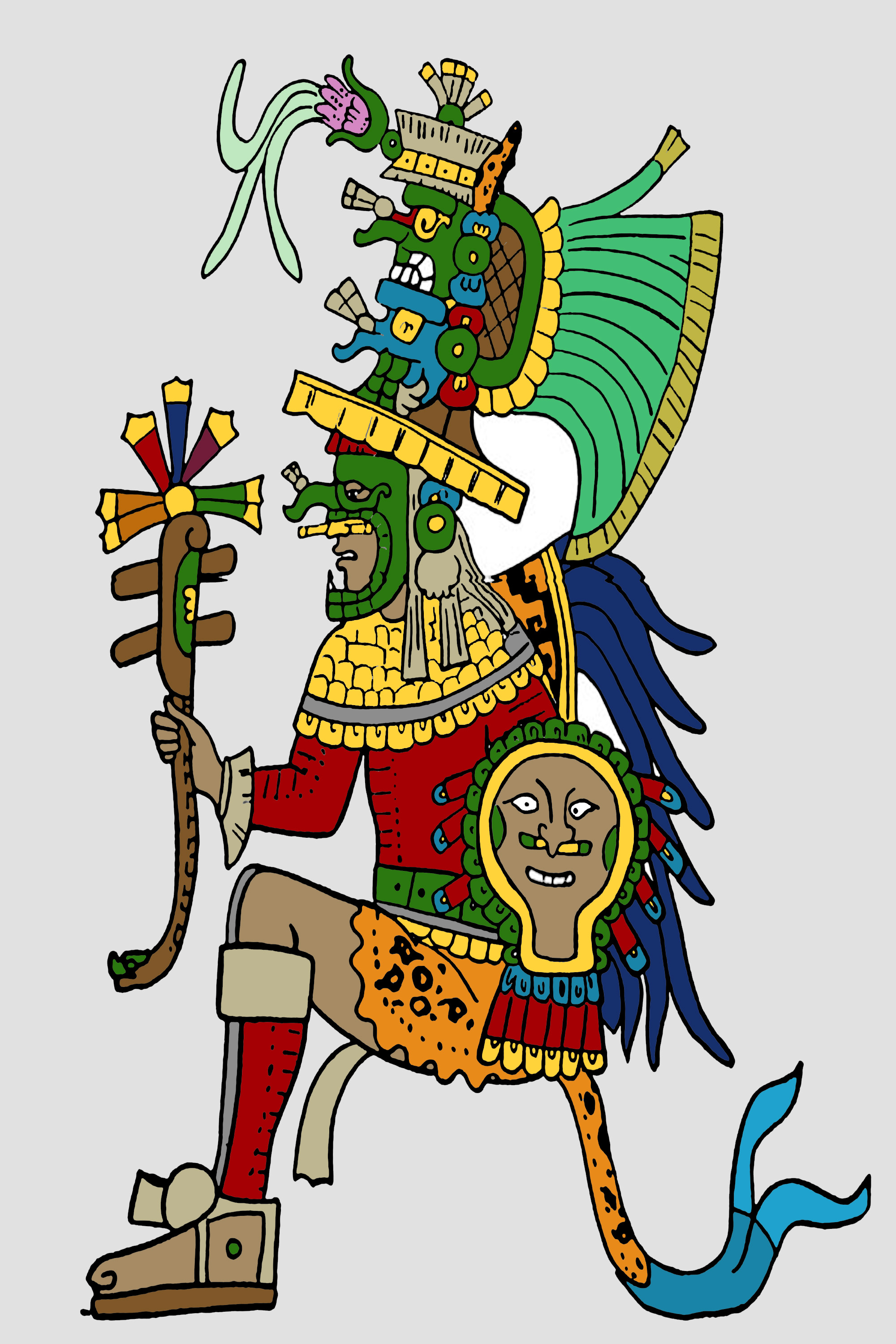 Chac Xib Chac was a ruler of Chichen itza in the twelfth century.